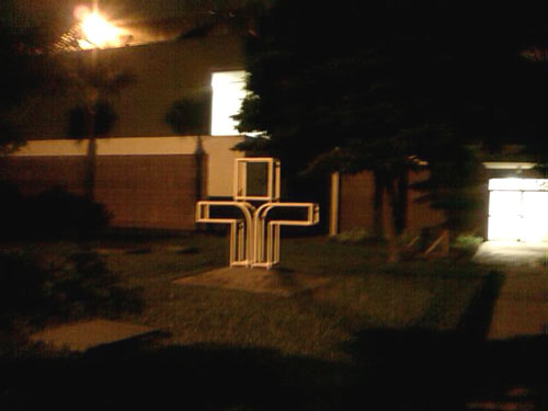 An Area of the Brazilian broadcaster TV Cultura, Sao Paulo, Brazil. Photo captured in Cenno Sbrighi Street.